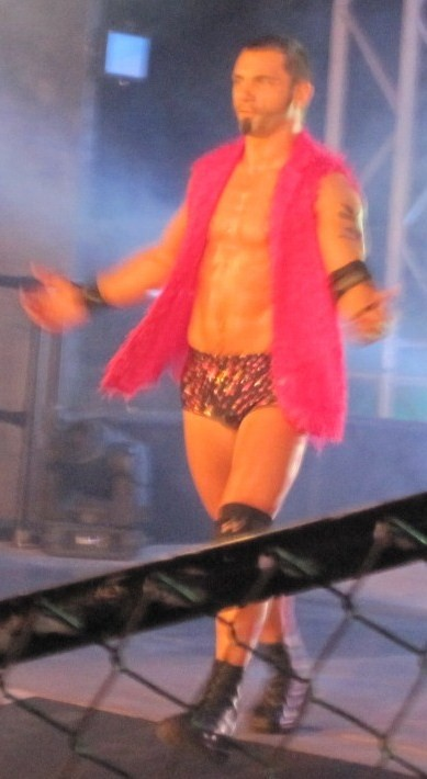 Professional wrestler Austin Aries making his entrance at the June 13, 2011, tapings of Impact Wrestling.